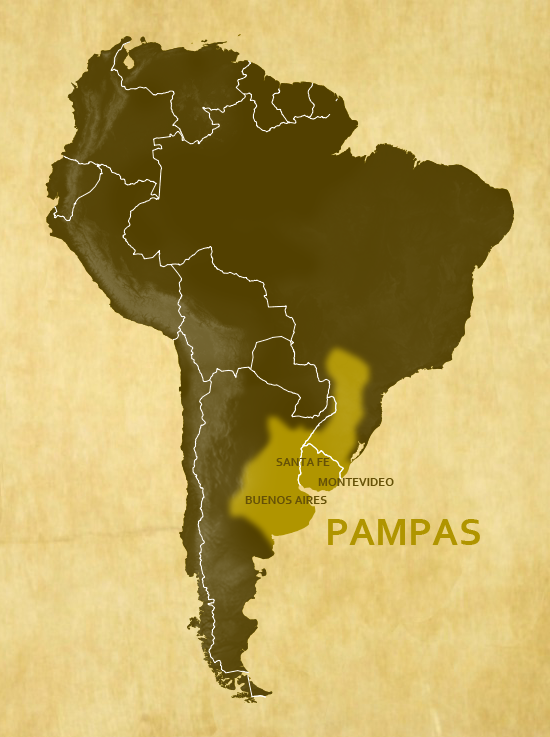 South America, indicating the extent of the Pampas. Based map created from File:South America.svg